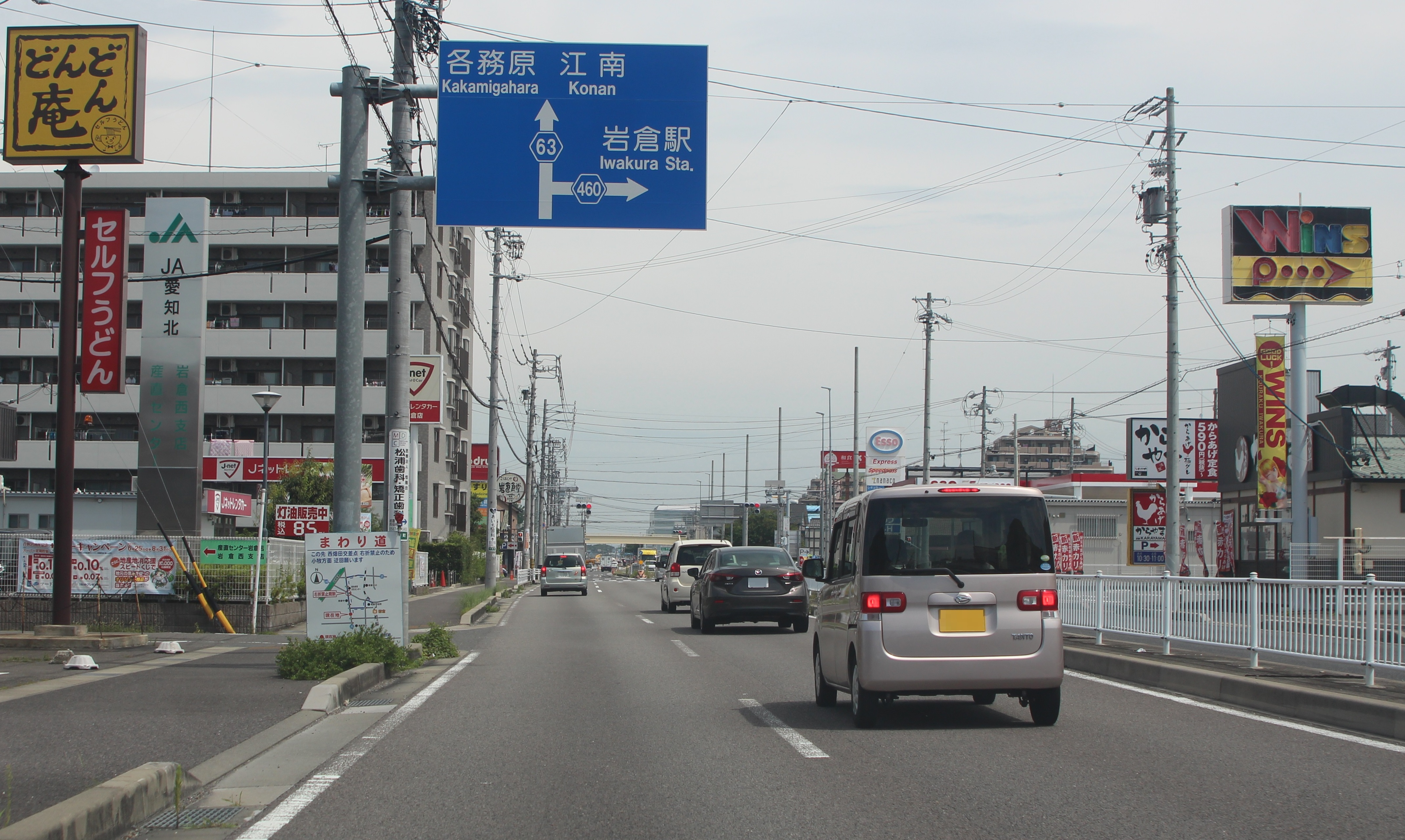 Aichi Prefectural Road Route 63 and Aichi Prefectural Road Route 460 in Chuocho, Iwakura, Aichi Prefecture, Japan.